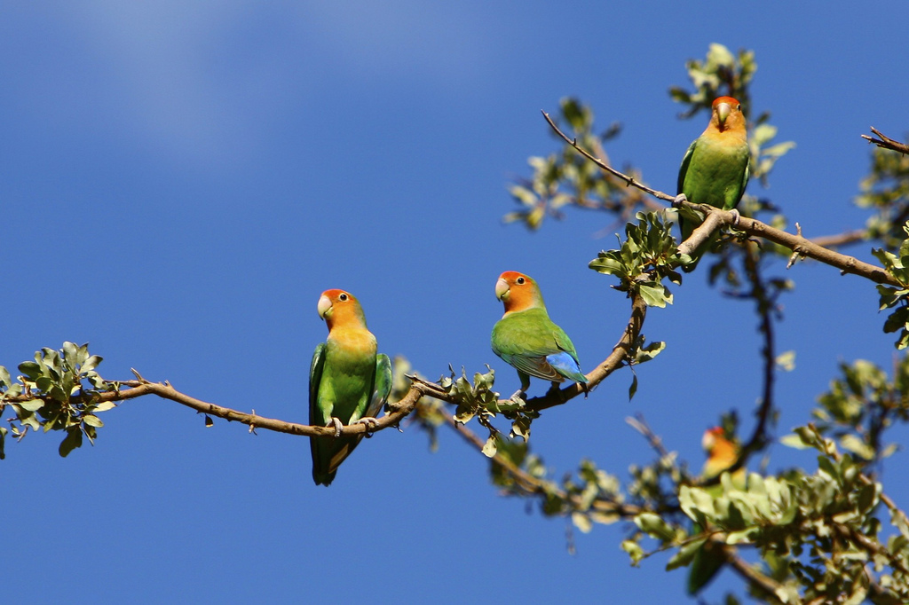 Rosy-faced Lovebirds at Etosha National Park, Namibia.